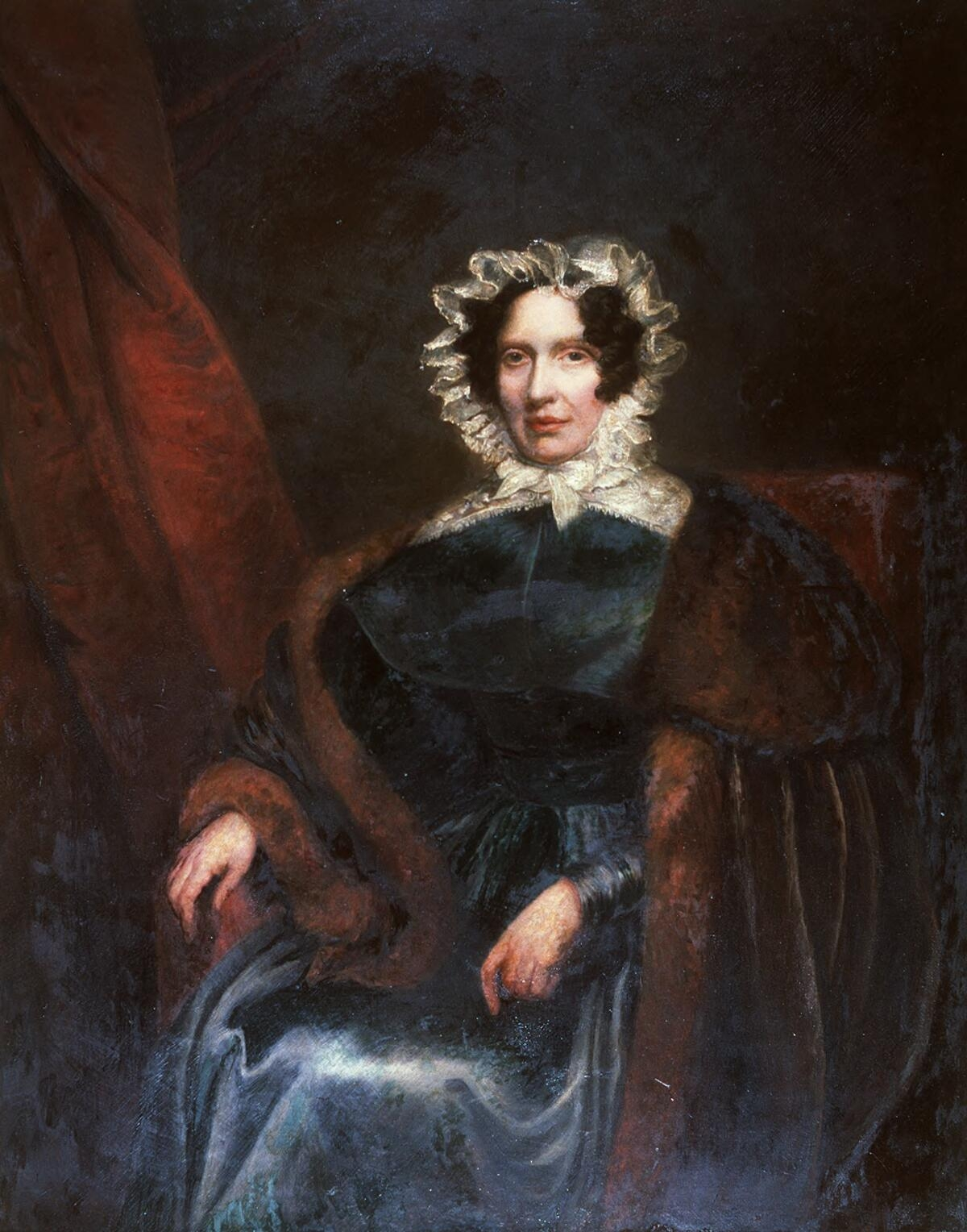 A painting from the Framed Works of Art collection at the National Library of wales.